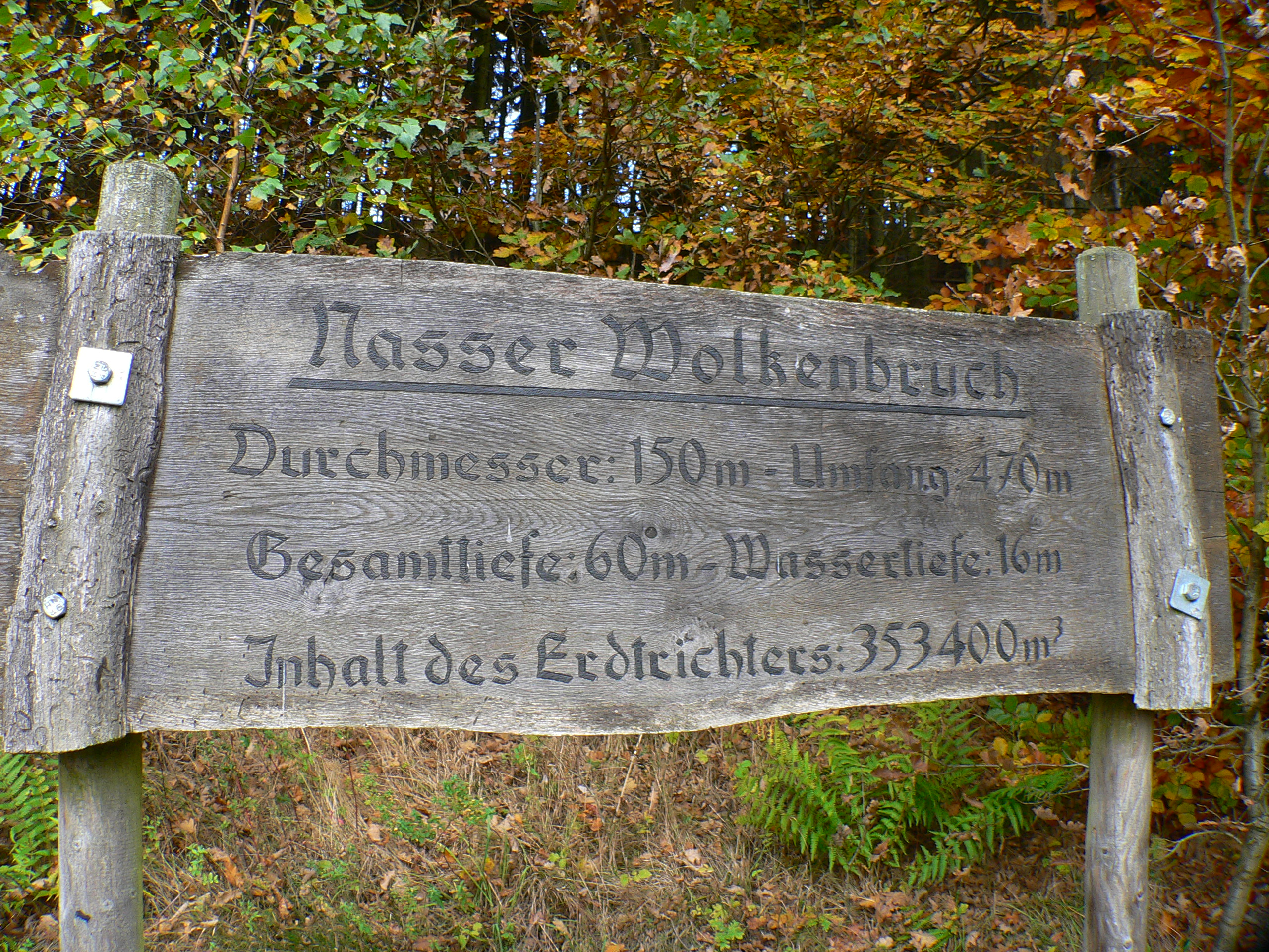 Germany / North Hesse:crater lake "Nasser Wolkenbruch" near Trendelburg - information-board